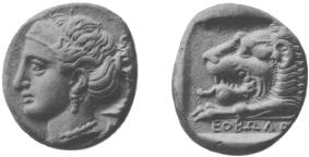 About B.C. 400 Cnidus, following the example of Rhodes, adopted the so-called Rhodian standard. The head of Aphrodite henceforth occupies the obverse side of the coin, and is distinguished as Aphrodite Euploia by the addition of the Prow as an adjunct symbol. AR Tetradr. 234 grs. of Knidos: ΚΝΙ Head of Aphrodite Euploia; behind, Prow.; Incuse square, within which forepart of lion; beneath, magistrate’s name.